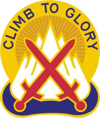 10th Mountain Division–distinctive unit insignia This is the Distinctive Unit Insignia; the Shoulder Sleeve Insignia can be found at :Image:10th Mountain Division-shoulder sleeve insignia.jpeg. Contents 1 Distinctive Unit Insignia 2 Summary 2.1 Symbolism 3 Original upload log Distinctive Unit Insignia Summary A gold color metal and enamel device consisting of a white mountain formed of five peaks above a blue wavy bar and crosses in front overall two red swords point up; behind the mountain peaks a glory of gold rays radiant from center and enclosed by a gold scroll inscribed "CLIMB TO GLORY" in blue letters. Symbolism The white mountain symbol and the blue wave represent the Division's World War II combat history in the Northern Apennines and Po Valley Campaigns in Italy. The crossed swords are symbolic of wartime service and further suggest the Roman numeral X, the unit's numerical designation. Scarlet is symbolic of courage and mortal danger, blue denotes steadfastness and loyalty. The gold is for excellence and the white is symbolic of mountain tops and of high aspirations.